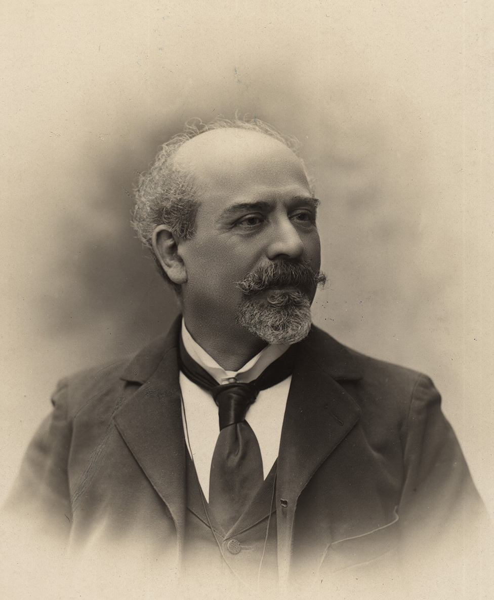 Portrait of Romualdo Marenco, composer (1841-1907). Photo by Varischi e Artico, Milano, before 1907.